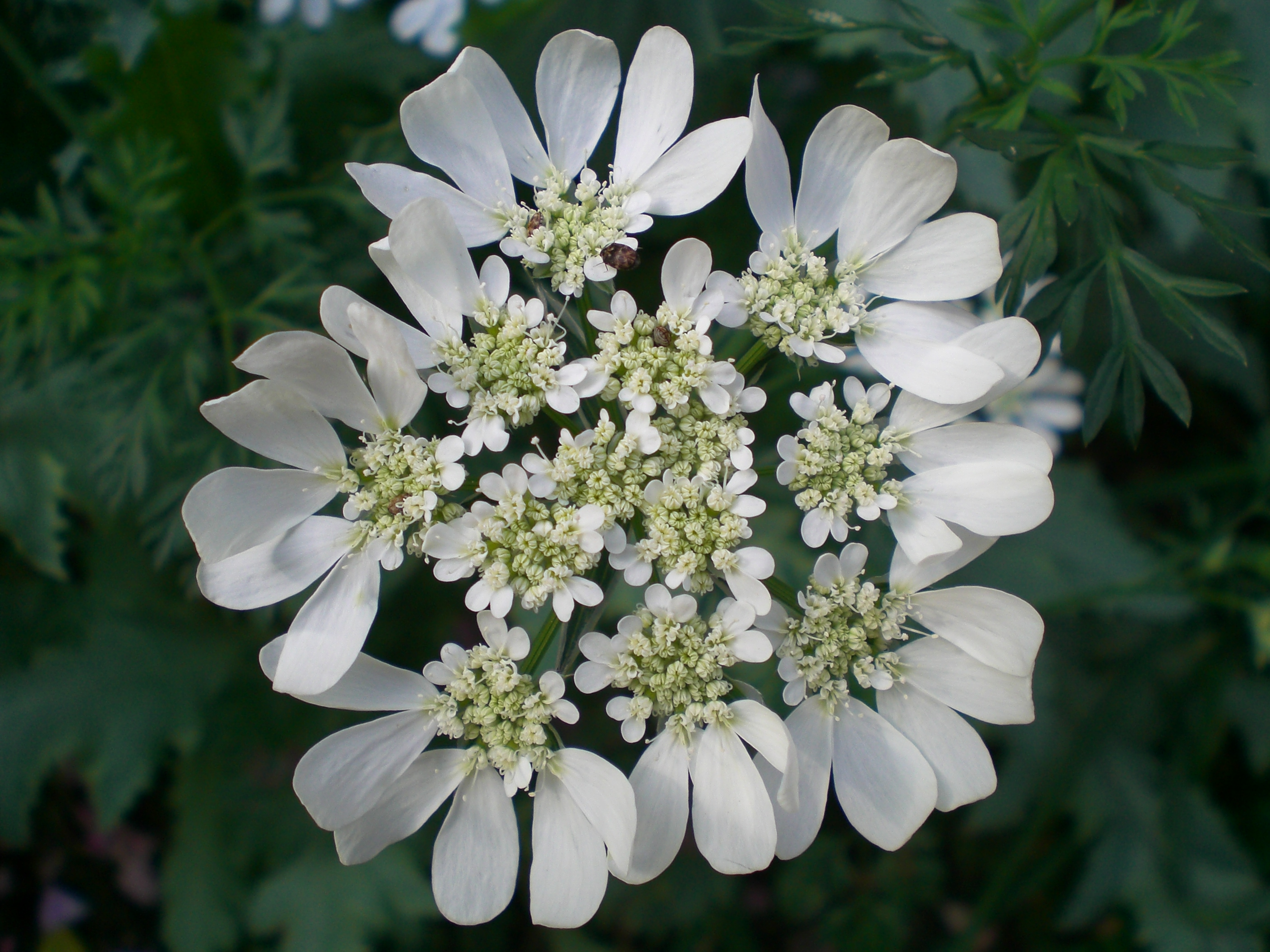 Orlaya grandiflora flowers (German: Strahlen-Breitsame). Picture taken in own garden. Seeds provided by Thomson & Morgan, UK.